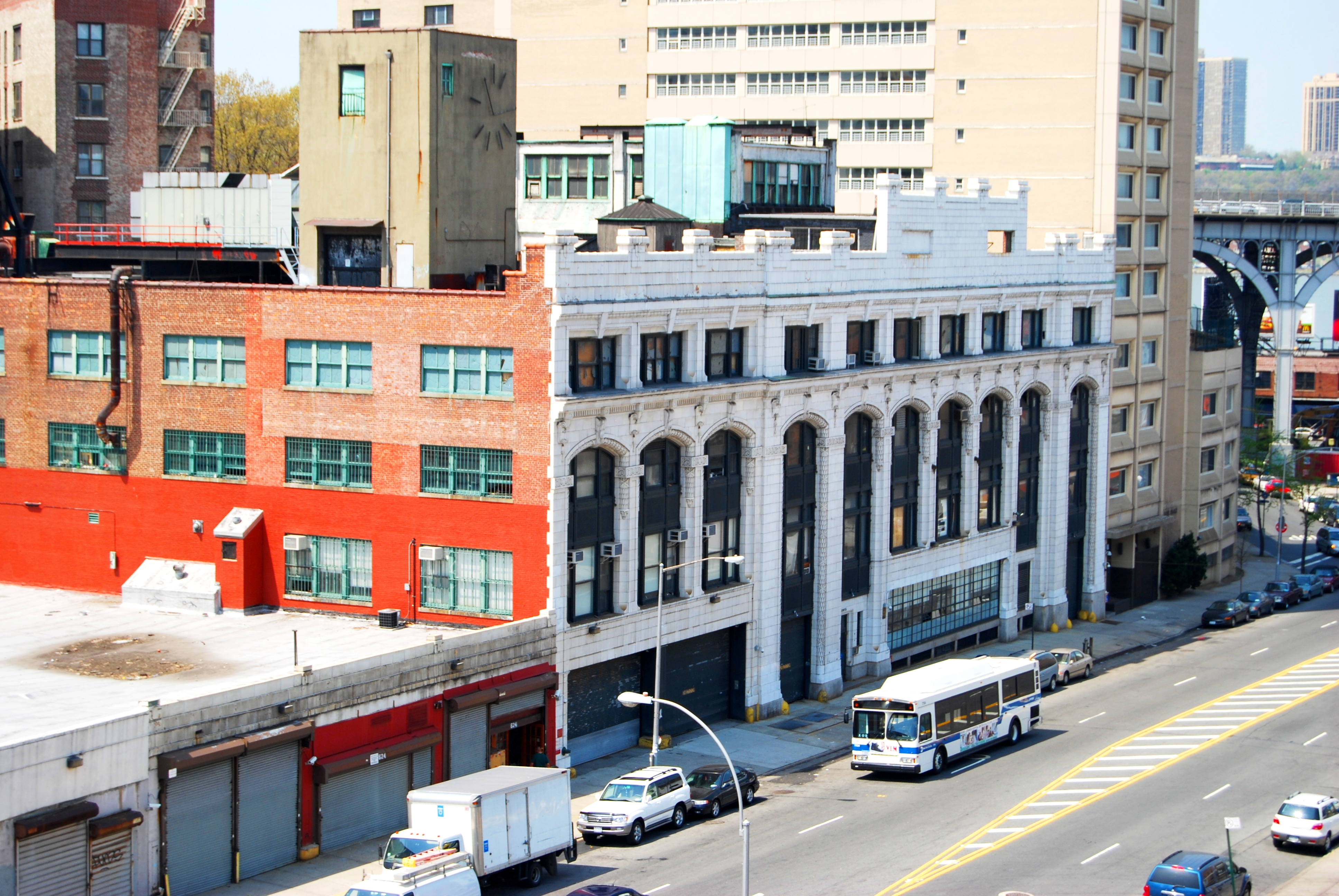 Columbia University's Prentis Hall, home of the Computer Music Center, originally built as a Sheffield Farms milk plant. West 125th Street in the Manhattanville neighborhood of New York City.